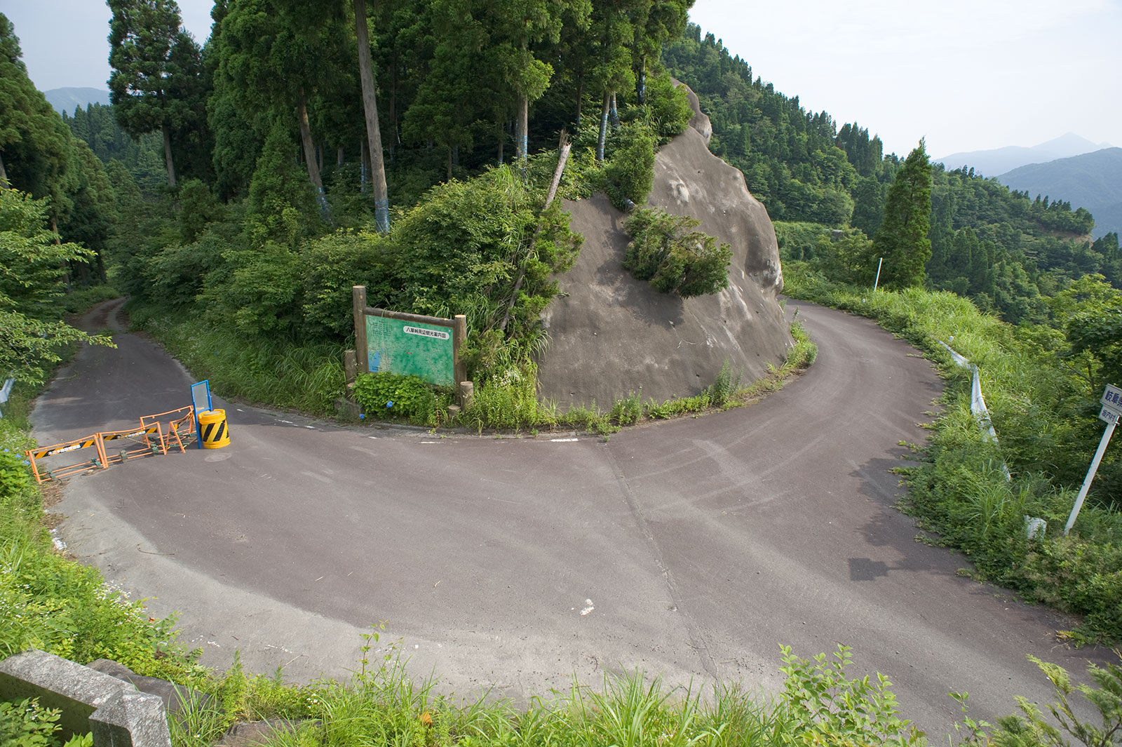 Hassou-touge pass